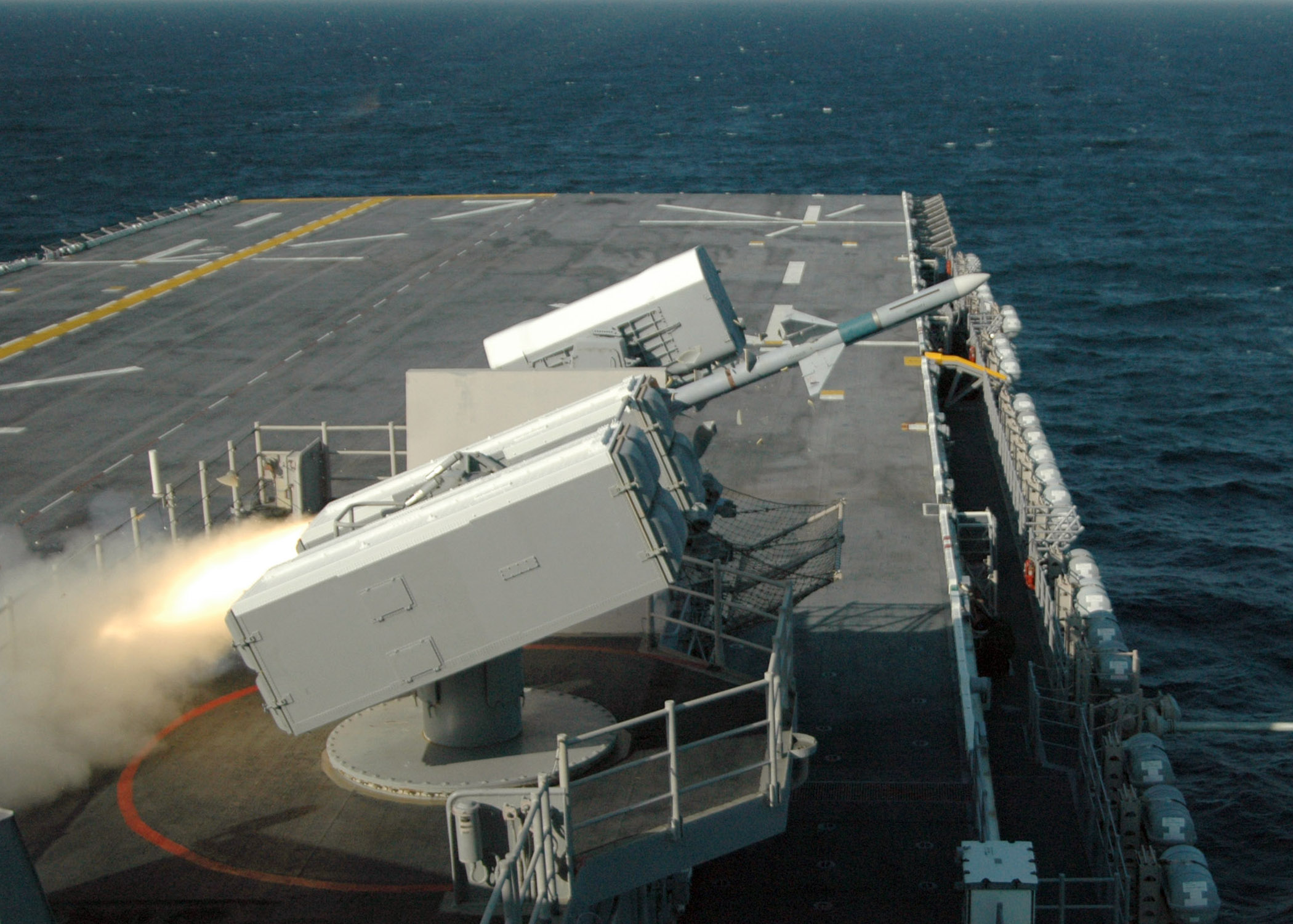 ATLANTIC OCEAN (Feb. 8, 2008) A RIM 7 Sea Sparrow launches from a NATO surface missile system during a live-fire exercise aboard the amphibious assault ship USS Iwo Jima (LHD 7). The multi-purpose amphibious assault ship is training for an upcoming deployment. U.S. Navy photo by Mass Communication Specialist Seaman Bryant A. Kurowski (Released)